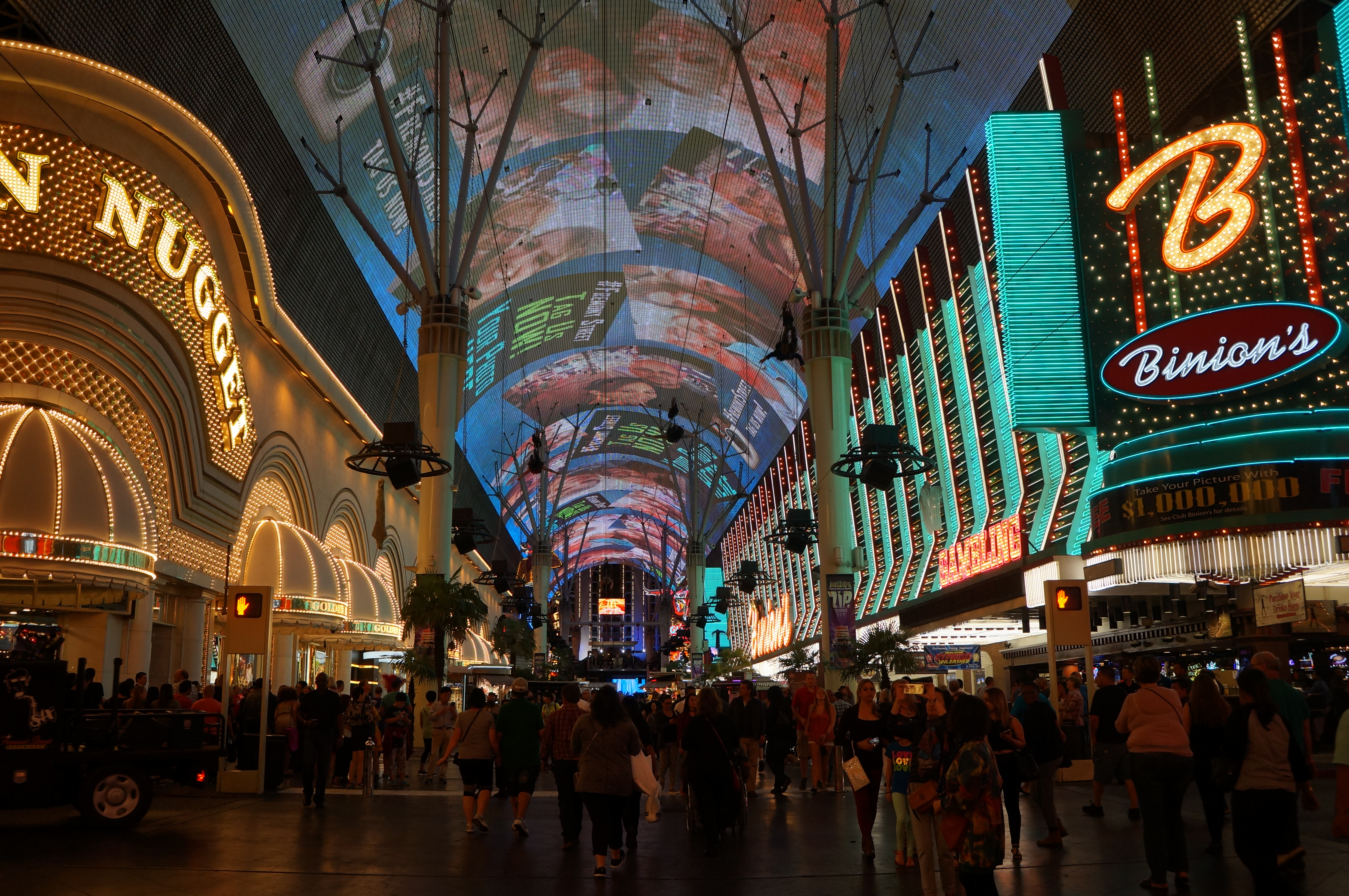 Fremont Street Experience LasVegas, in Nevada (USA).